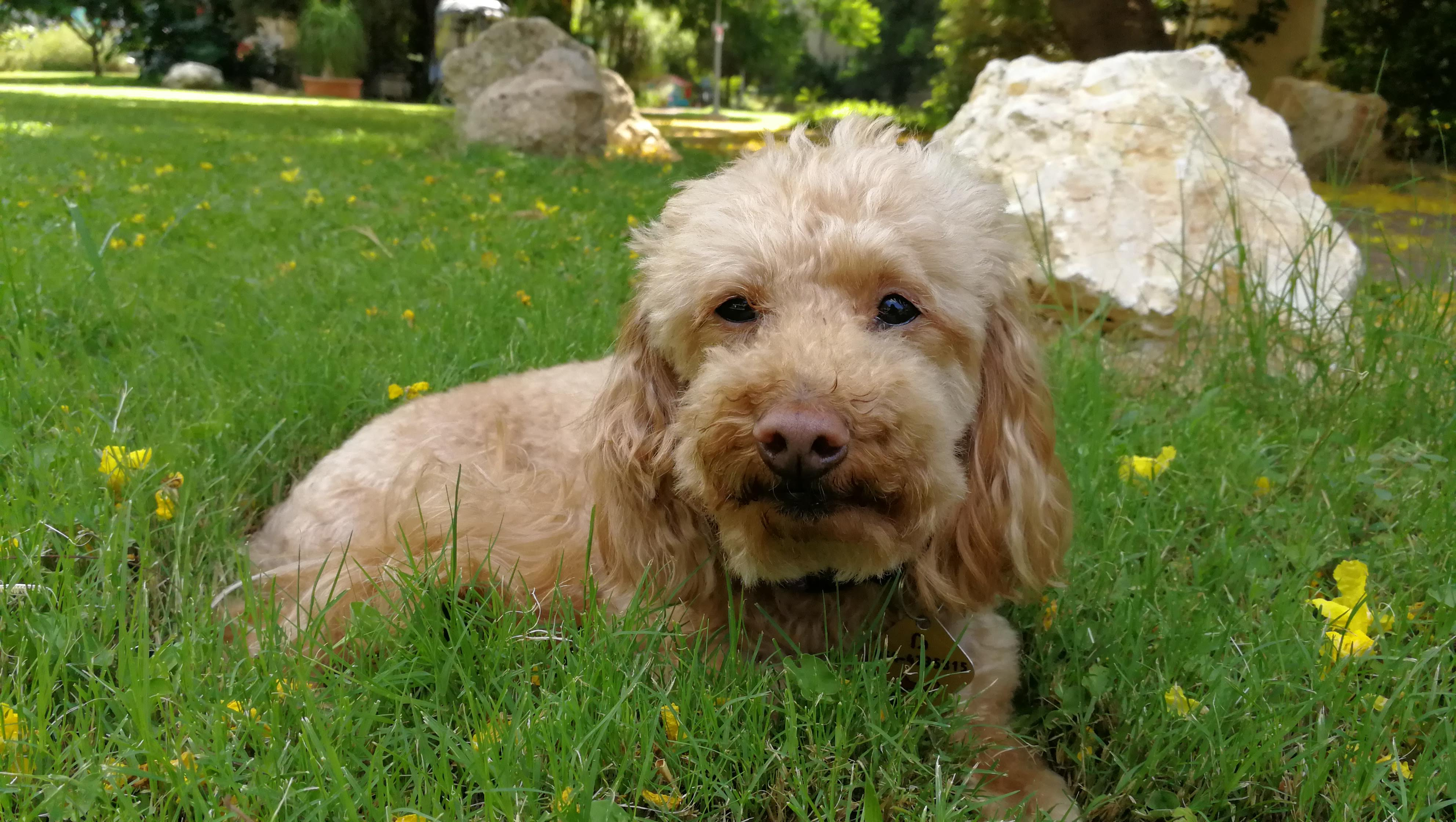 Bell, Gold Poodle